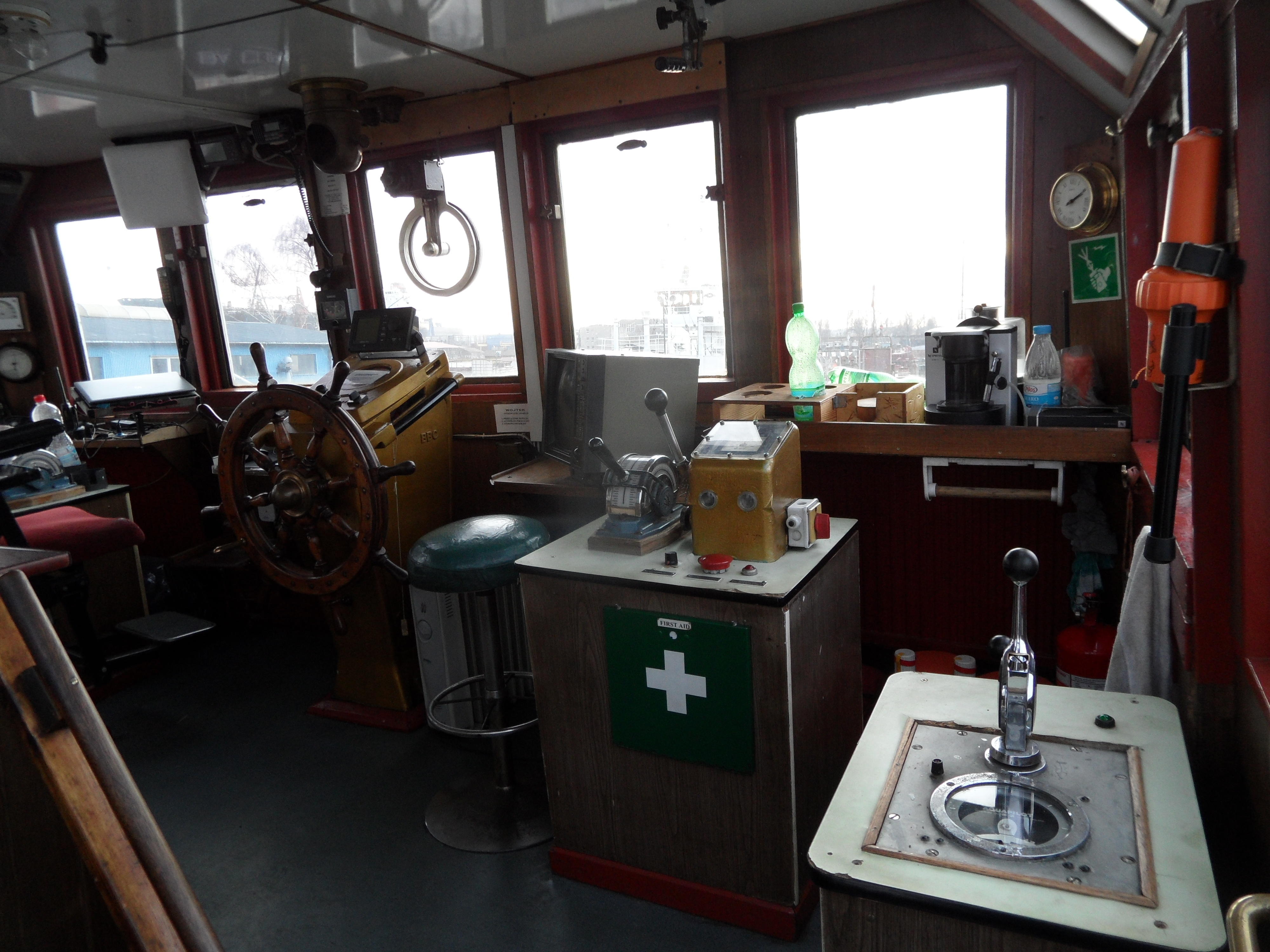 Tugboat "Wojtek" bridge, Gdańsk, Poland